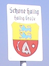 Sign on the Hallig Gröde with the coat of arms of the former district Husum and the inscription "Schöne Hallig/Hallig Gröde" ("Beautiful island/island Gröde")